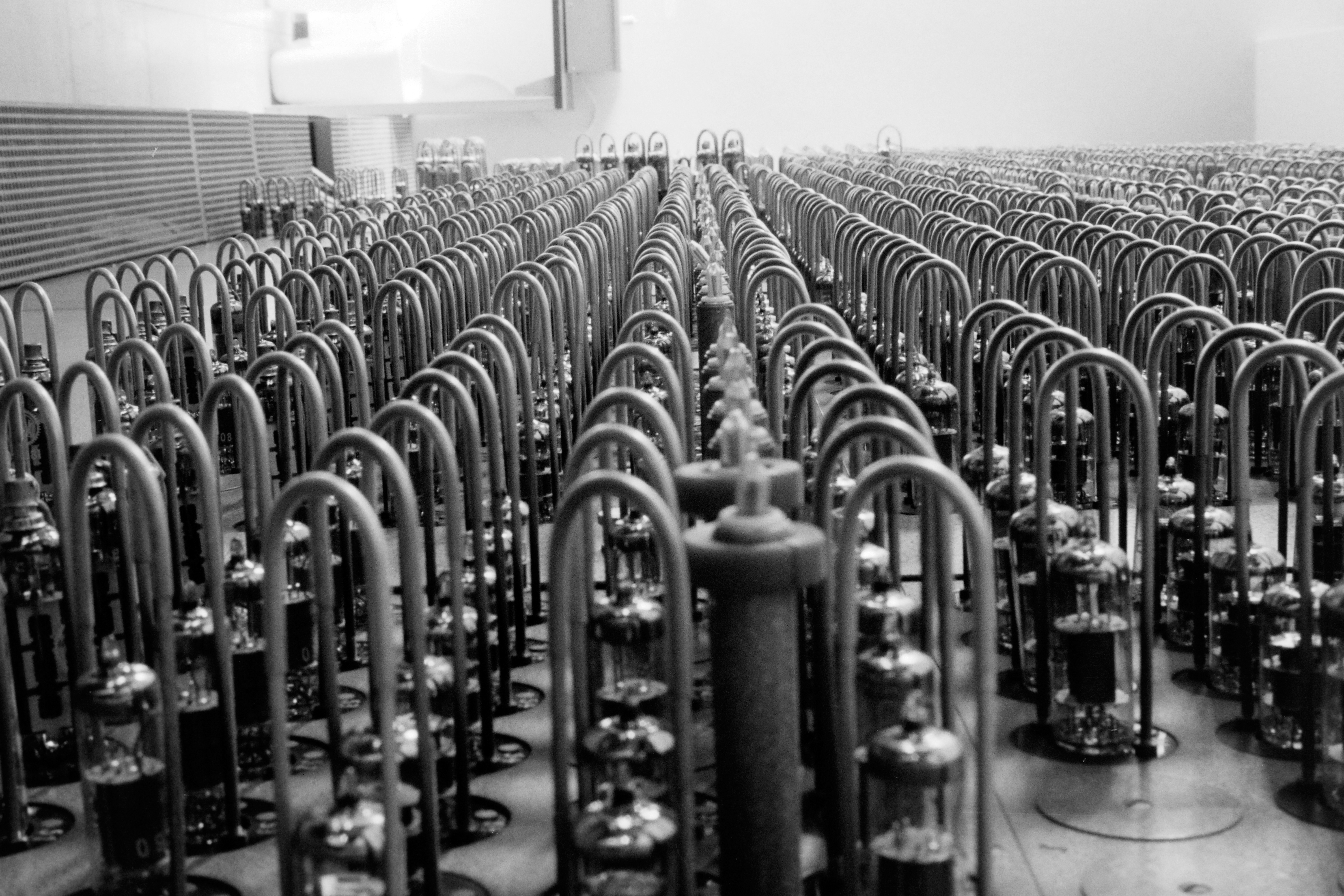 G3 Computer at the Max Planck Institute for Physics, Munich 1966: Close-up of double triodes in quick-change sockets, wired as flip-flops, with a row of glow lamps as status indicators in between